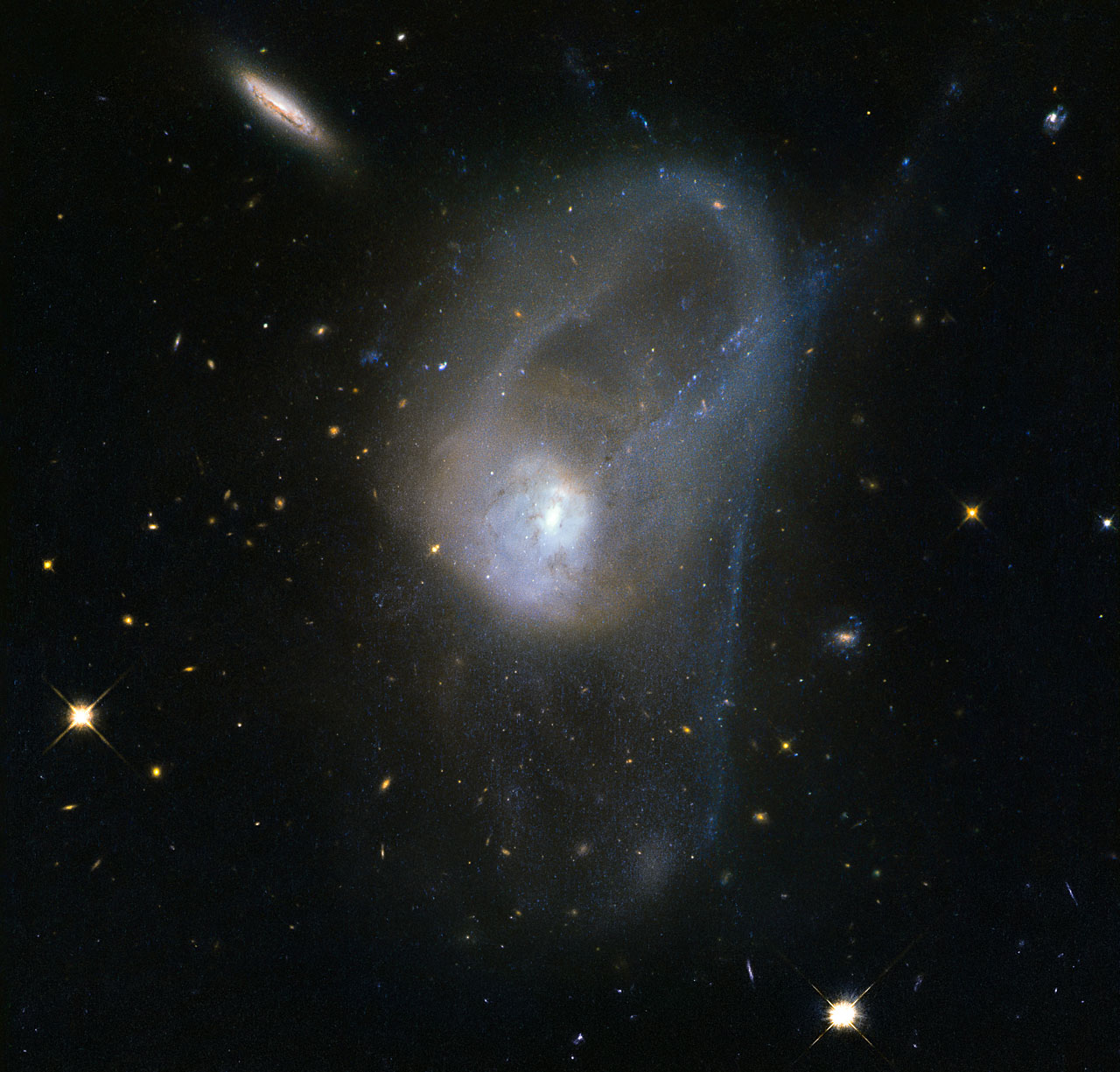 It is known today that merging galaxies play a large role in the evolution of galaxies and the formation of elliptical galaxies in particular. However there are only a few merging systems close enough to be observed in depth. The pair of interacting galaxies picture seen here — known as NGC 3921 — is one of these systems. NGC 3921 — found in the constellation of Ursa Major (The Great Bear) — is an interacting pair of disc galaxies in the late stages of its merger. Observations show that both of the galaxies involved were about the same mass and collided about 700 million years ago. You can see clearly in this image the disturbed morphology, tails and loops characteristic of a post-merger. The clash of galaxies caused a rush of star formation and previous Hubble observations showed over 1000 bright, young star clusters bursting to life at the heart of the galaxy pair.